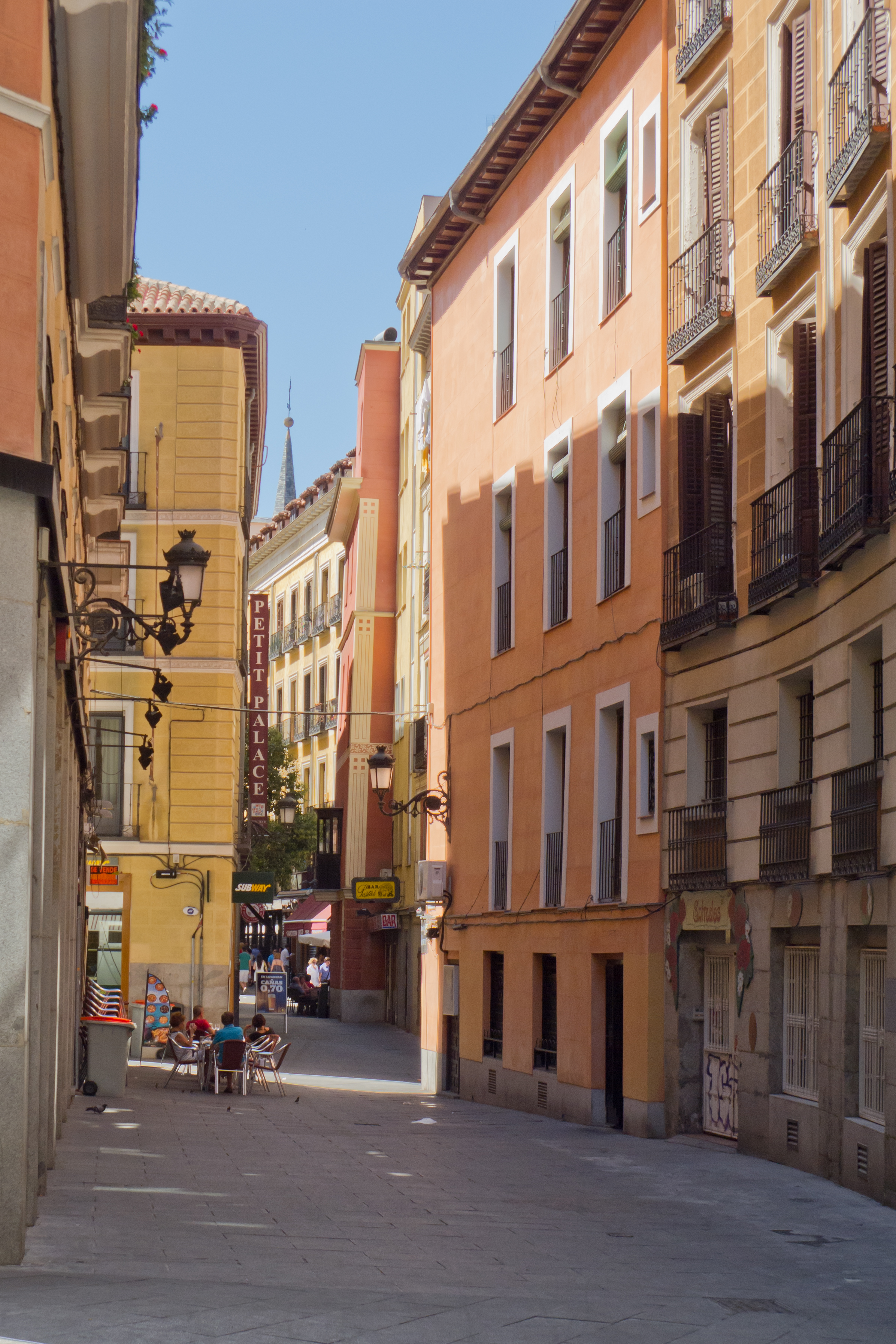 Calle del Marqués Viudo de Pontejos, Madrid, Spain.